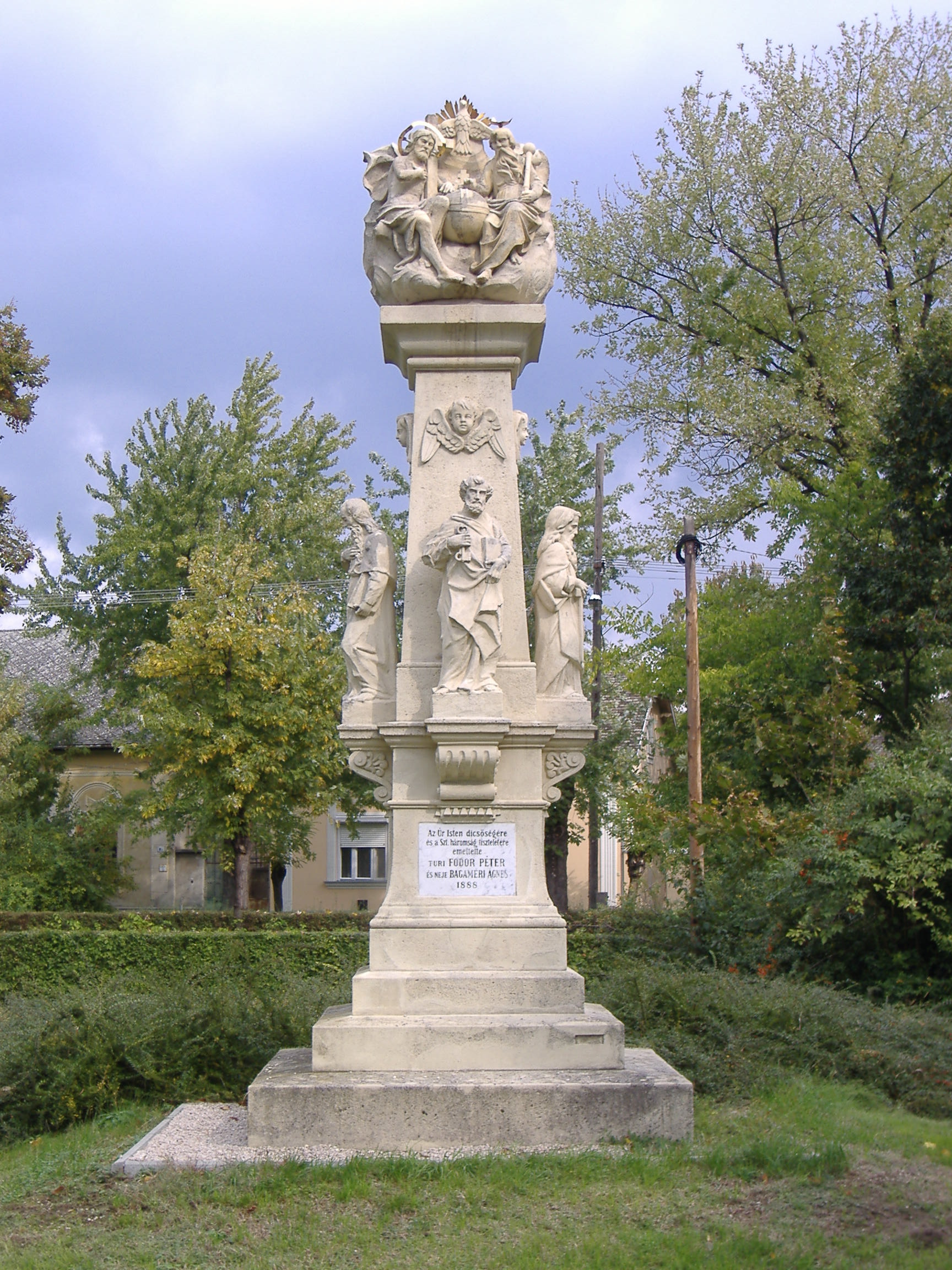 Holy Trinity statue in Makó, Hungary.